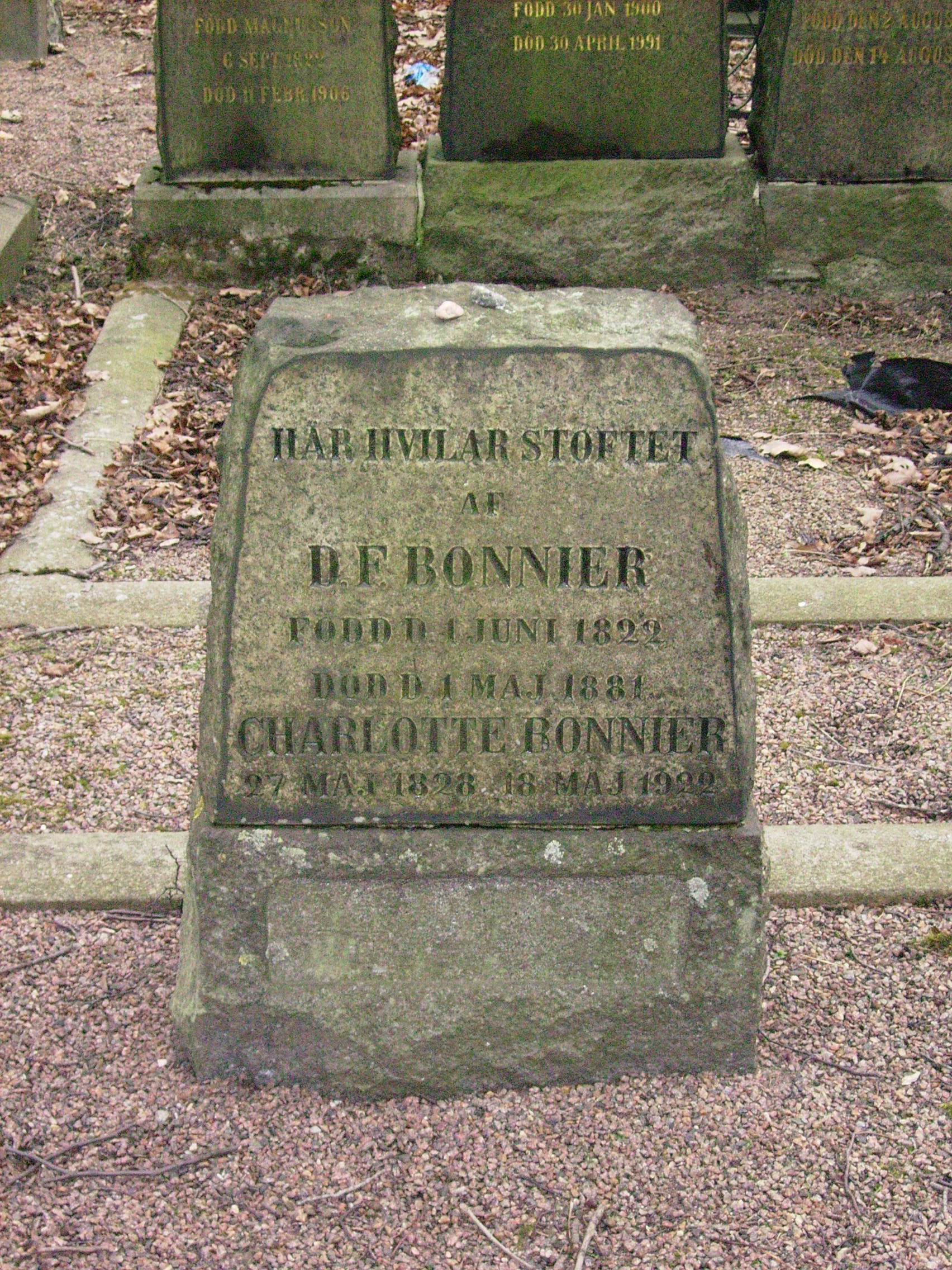 Picture of David F. Bonniers grave in Gothenburg.